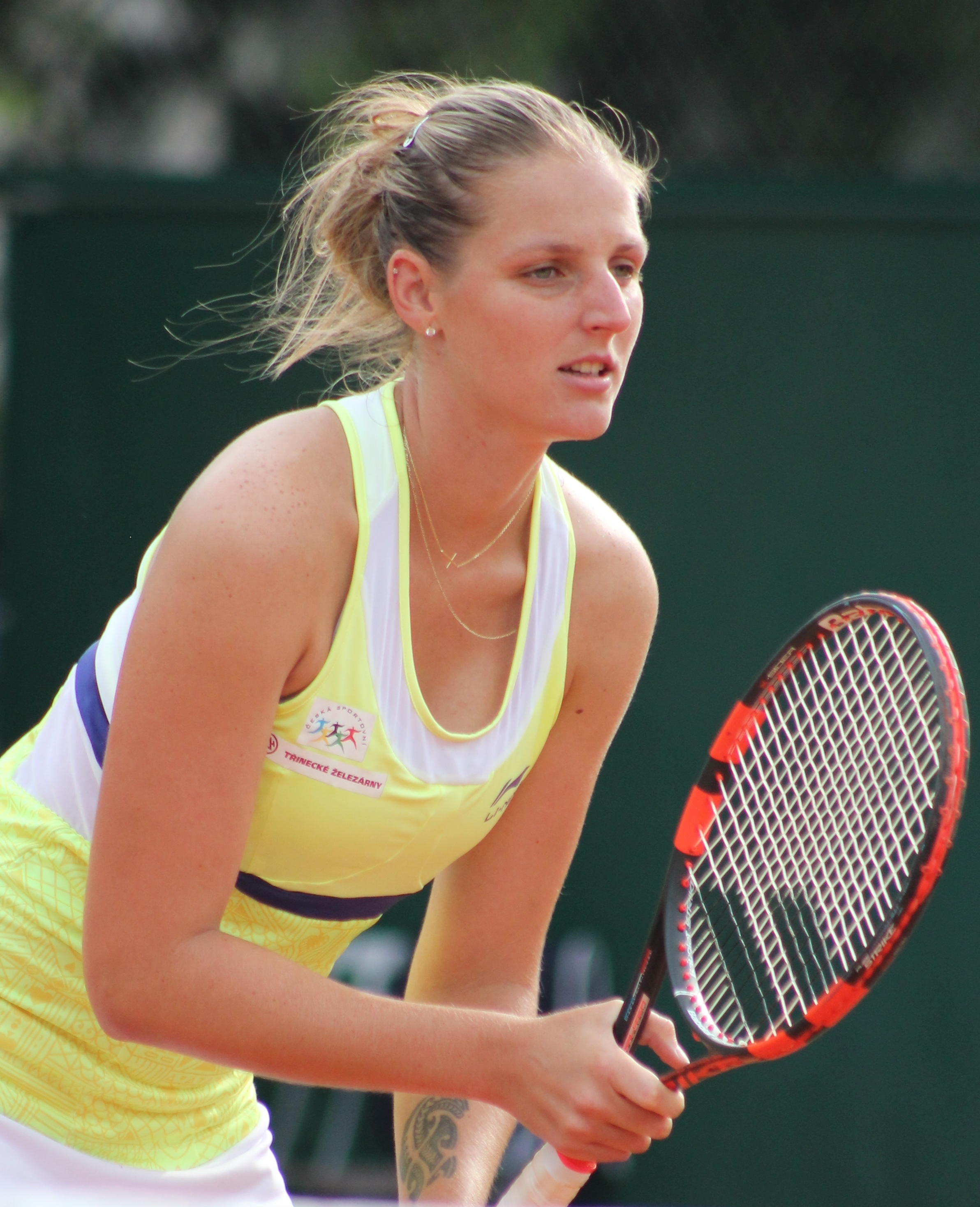 Pliskova Kr. RG15 (7)